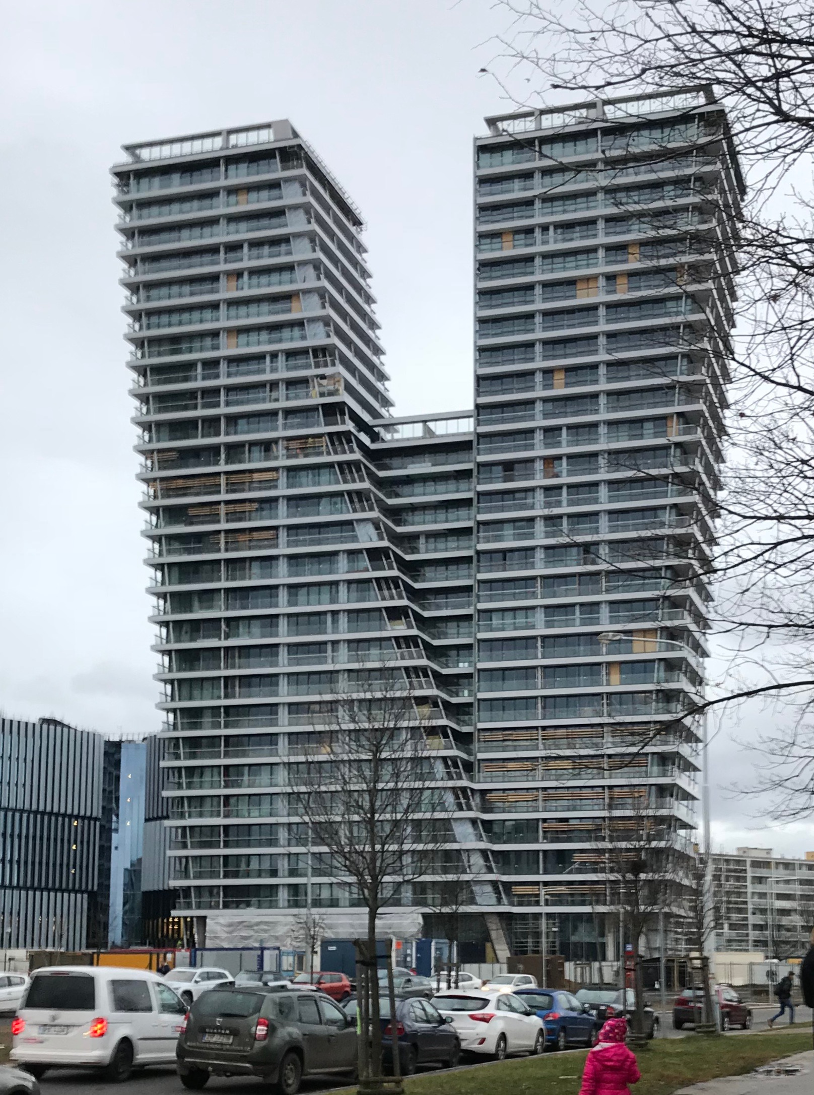 Finishing works on V Tower in Prague, January 2018